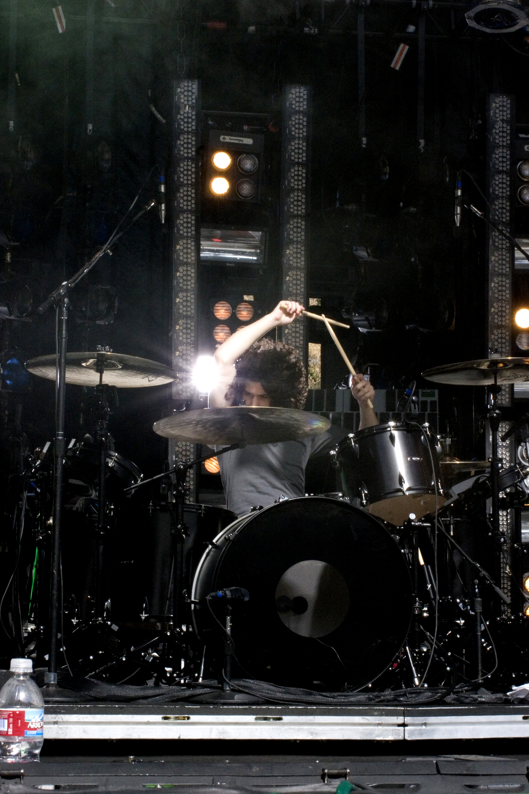 Ilan Rubin performs with Nine Inch Nails, Santa Barbara, California, May 2009 (image shot by Fiona Bowie {gebgdc})